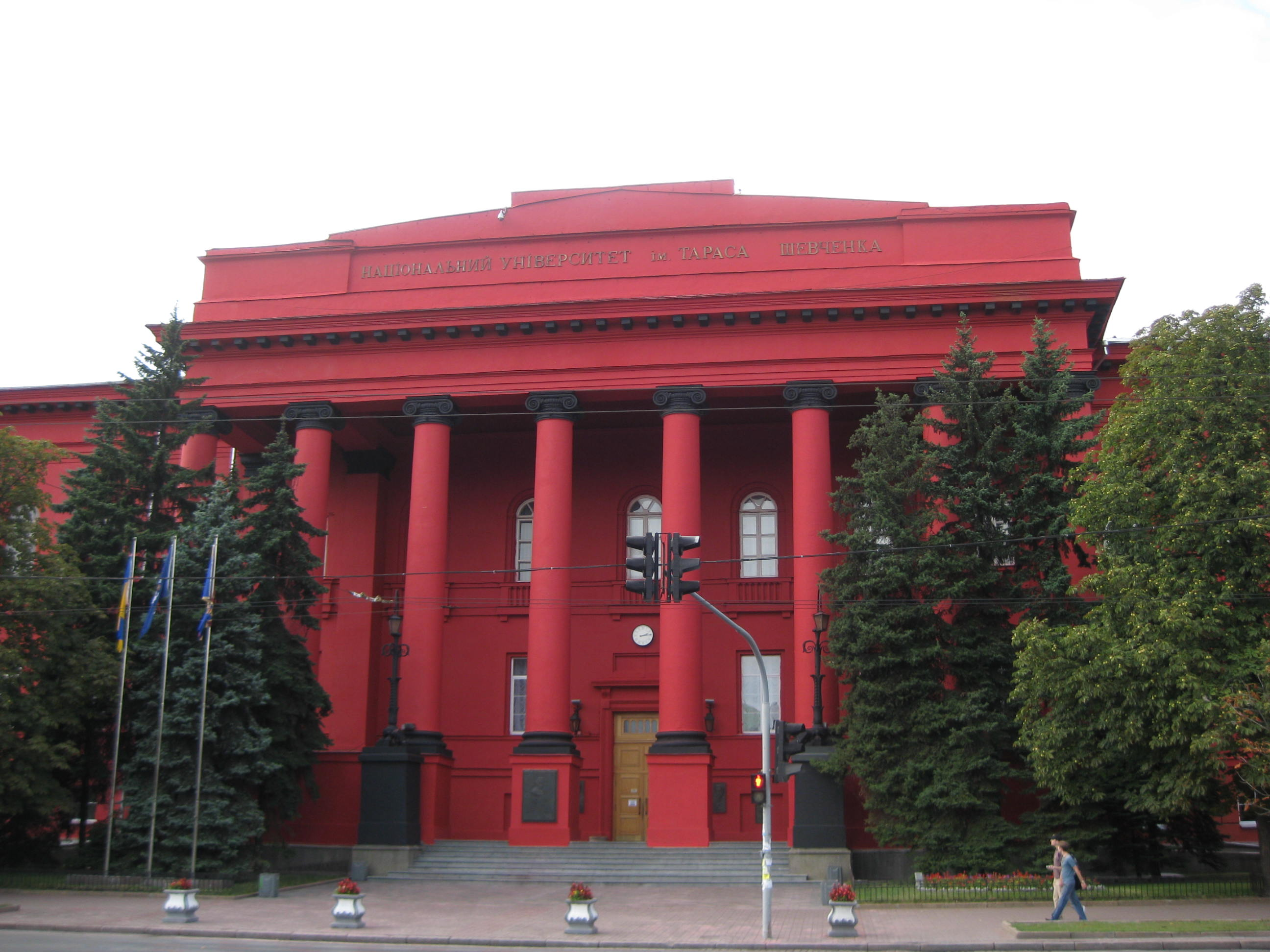 Taras Shevchenko National University in Kiev